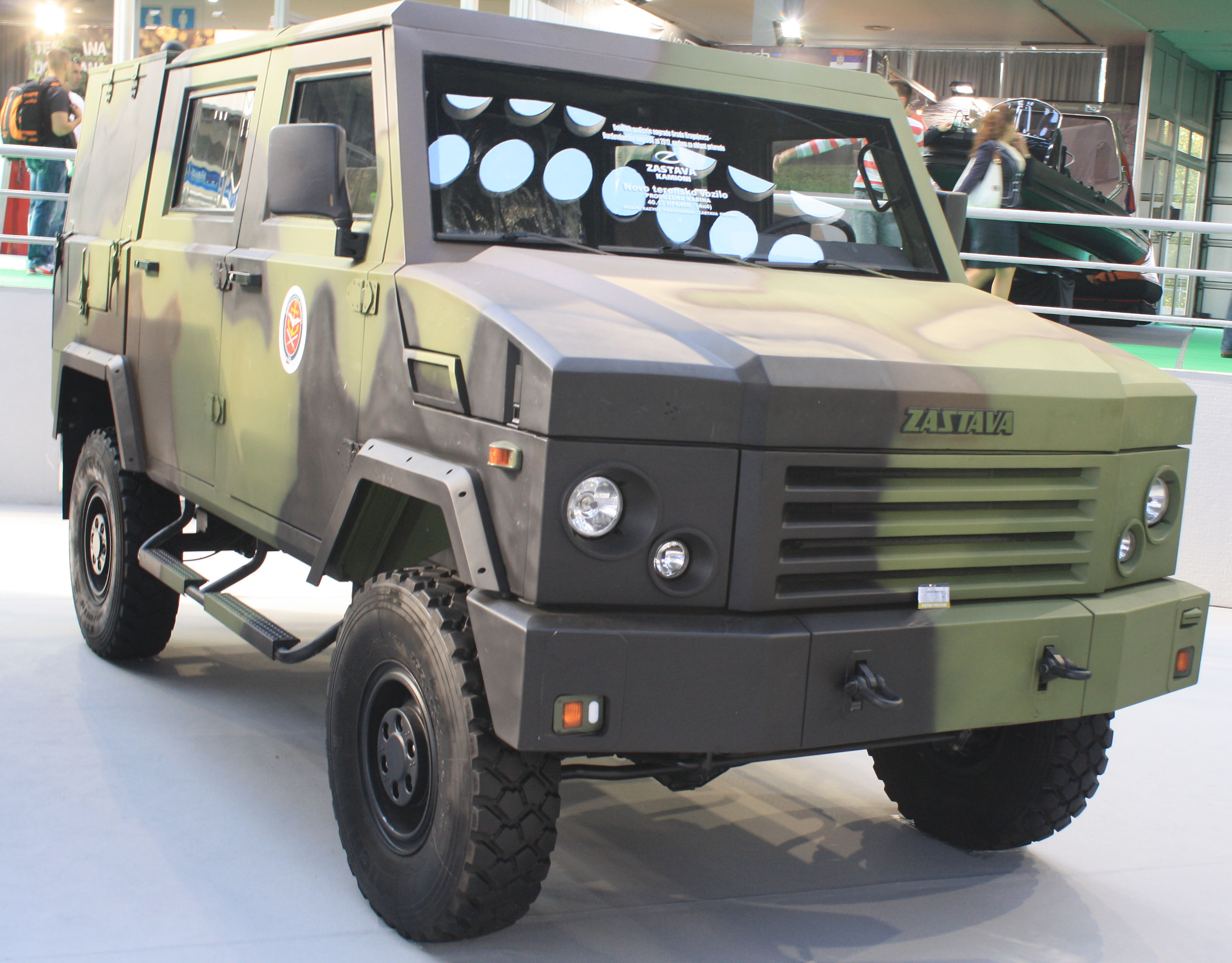 New military truck from Zastava Trucks, NTV 40.13 in 5+1 configuration on display at Partner 2013 military fair.